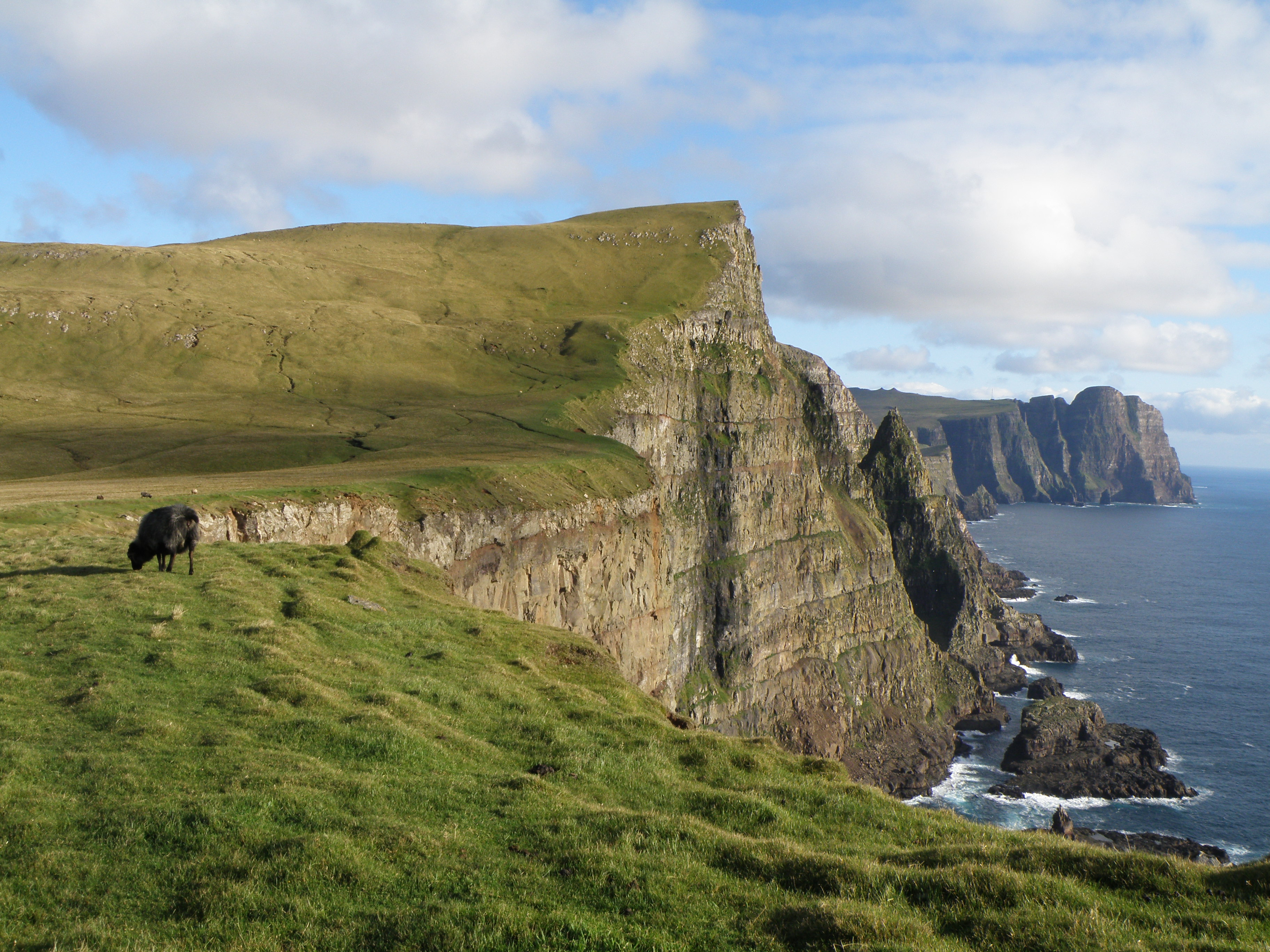 Eggjarnar is a beautiful place around 200 meters above sea level, it is just south of the village Vágur in Suðuroy, Faroe Islands. A road goes all the way up here; it stops only ca. 25 meters from the edge. The view on this photo is towards south, you can see the southern part of the west coast of Suðuroy and far away to the right of the photo you can see cape Beinisvørð, which is the highest sea cliff in Suduroy with its 470 meters and the second highest sea cliff of the Faroe Islands. Føroyskt: Myndin er tikin av Eggjunum sunnanfyri Vág. Á myndini sæst vestursíðan av Suðuroynni. Útsýnið er frálíkt og longst burturi sæst Beinisvørð sum við 470 metrum er hægsta forberg í Suðuroynni og næsthægsta forberg í Føroyum.